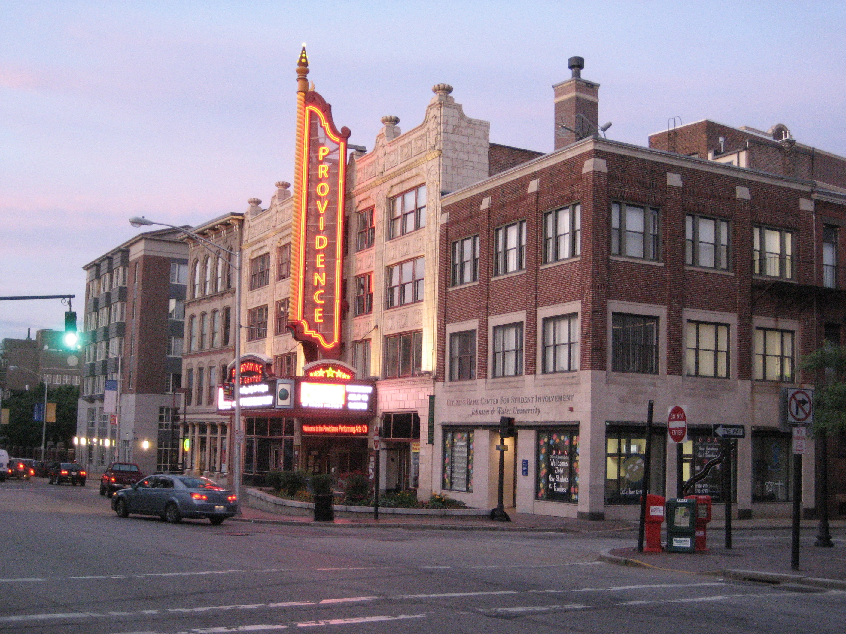 Providence Performing Arts Center—PPAC — on Weybosset Street, in Downtown Providence, Rhode Island. Cinema designed by Rapp and Rapp and built in 1928, and originally opened as Loews State Theatre, as listed on the National Register of Historic Places in Providence, Rhode Island.